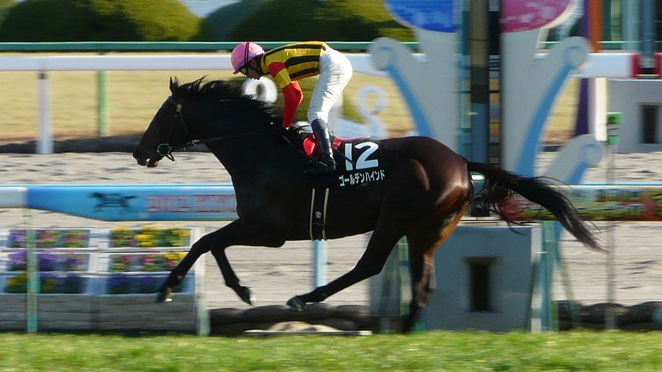 Golden-Hind(horse)20120105